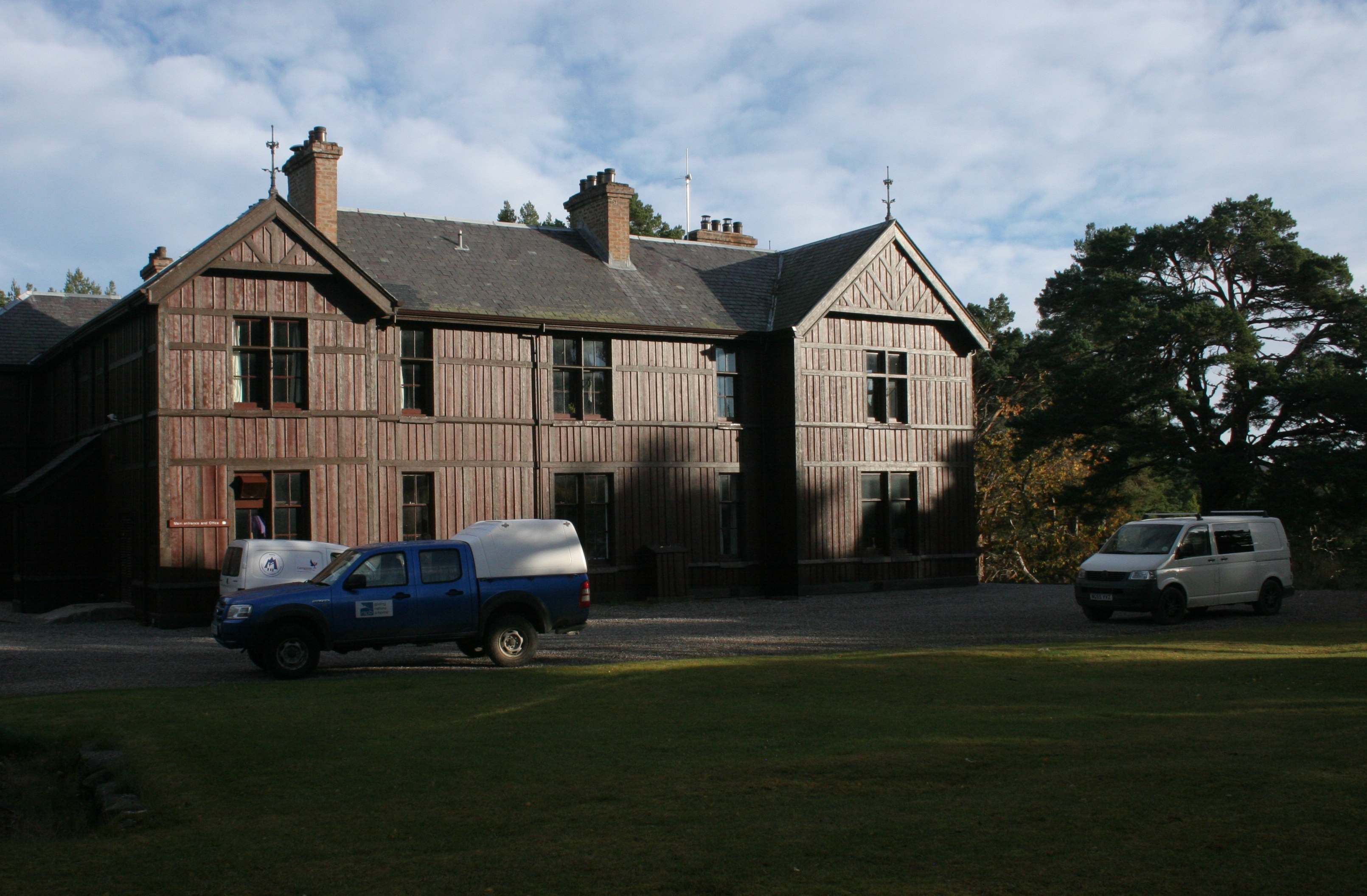 Forest Lodge, Abernethy Forest